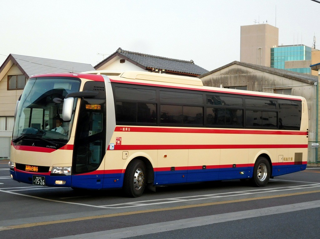 Fukushima Kotsu Mitsubishi Fuso Aero Ace (QRG-MS96VP) for highwaybus "Sendai-Soma".